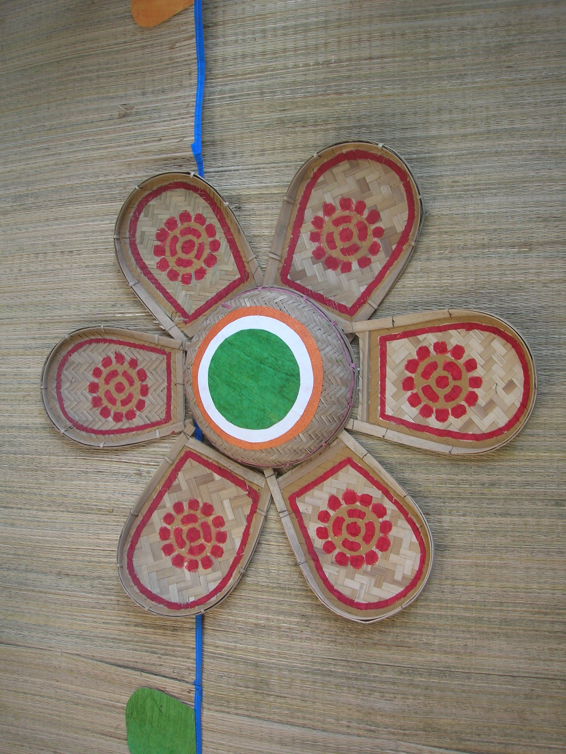 Pandal decoration with kulo and madur at Barisha Janakalyan Sangha Durga Puja Pandal, Kolkata, 2010.